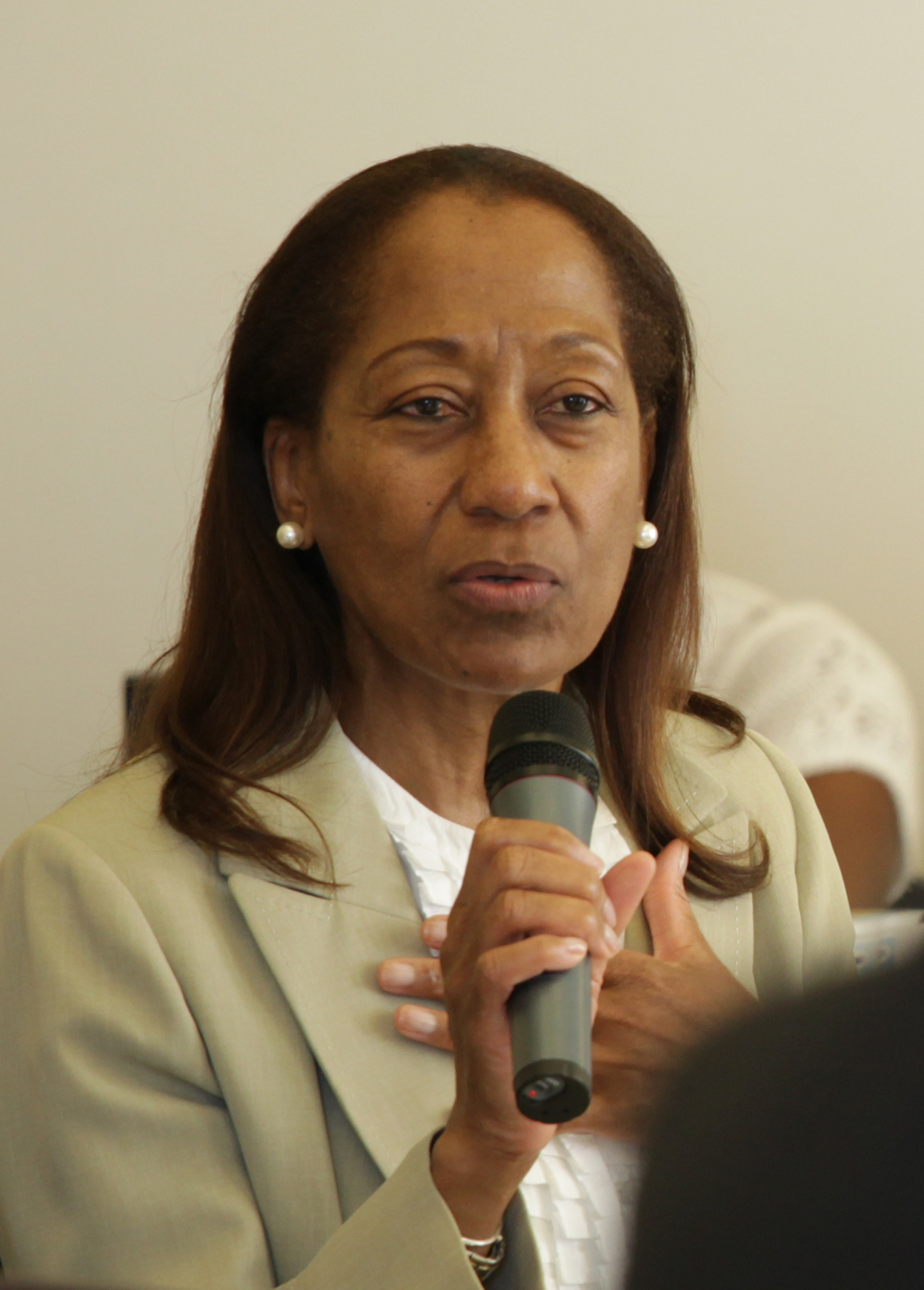 Each year the United Nations Economic and Social Council (ECOSOC) hosts an Annual Ministerial Review (AMR) where Government Ministers look at the progress countries are making toward reaching internationally agreed development goals (IADG), including the Millennium Development Goals. This year’s theme is Education. UNICEF, UNFPA, and ECOSOC teamed up to ensure that the voice of young people also continues to be part of this important dialogue. Young people from around the world were invited to contribute their ideas through a Facebook discussion page. Seven participants were chosen to speak directly to the ECOSOC Ministers via teleconference at a July 7 meeting. The meeting was opened by Ambassador Frederick Barton, U.S. Vice Ambassador to ECOSOC and Dr. Paulette A. Bethel, Ambassador of the Bahamas to the United Nations.